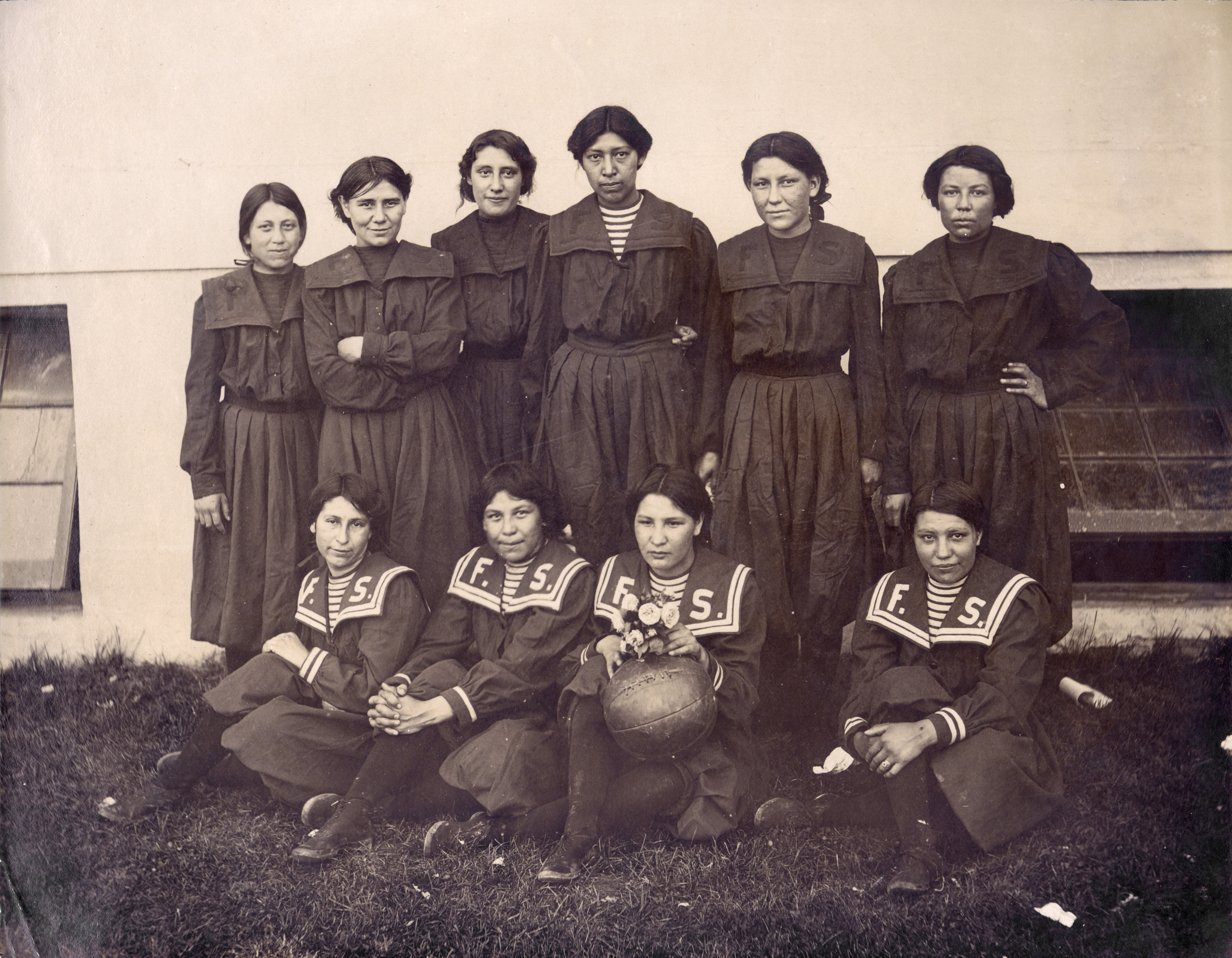 Title: "Indian girls dressed for a ball game, U.S. Government Indian exhibit." (Fort Shaw Indian School basketball team) 1904 World's Fair.